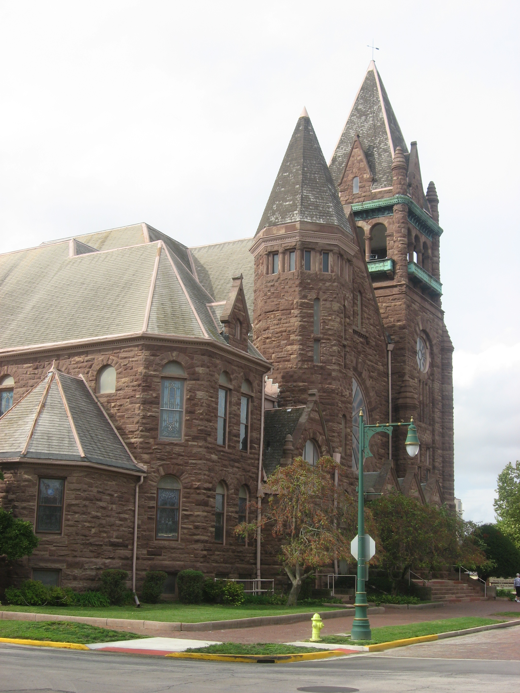 Front of the Central Congregational Church, located on the public square in Galesburg, Illinois, United States. Built in 1897, it is listed on the National Register of Historic Places, and it is part of a Register-listed historic district, the Galesburg Historic District.